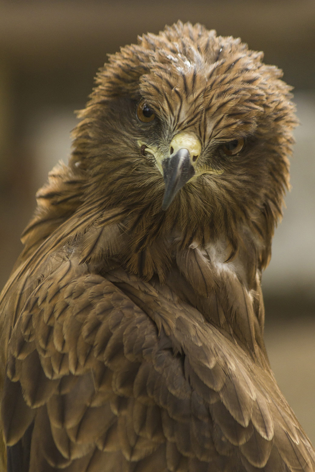 A close up portrait of Black Kite in old Bharuch.